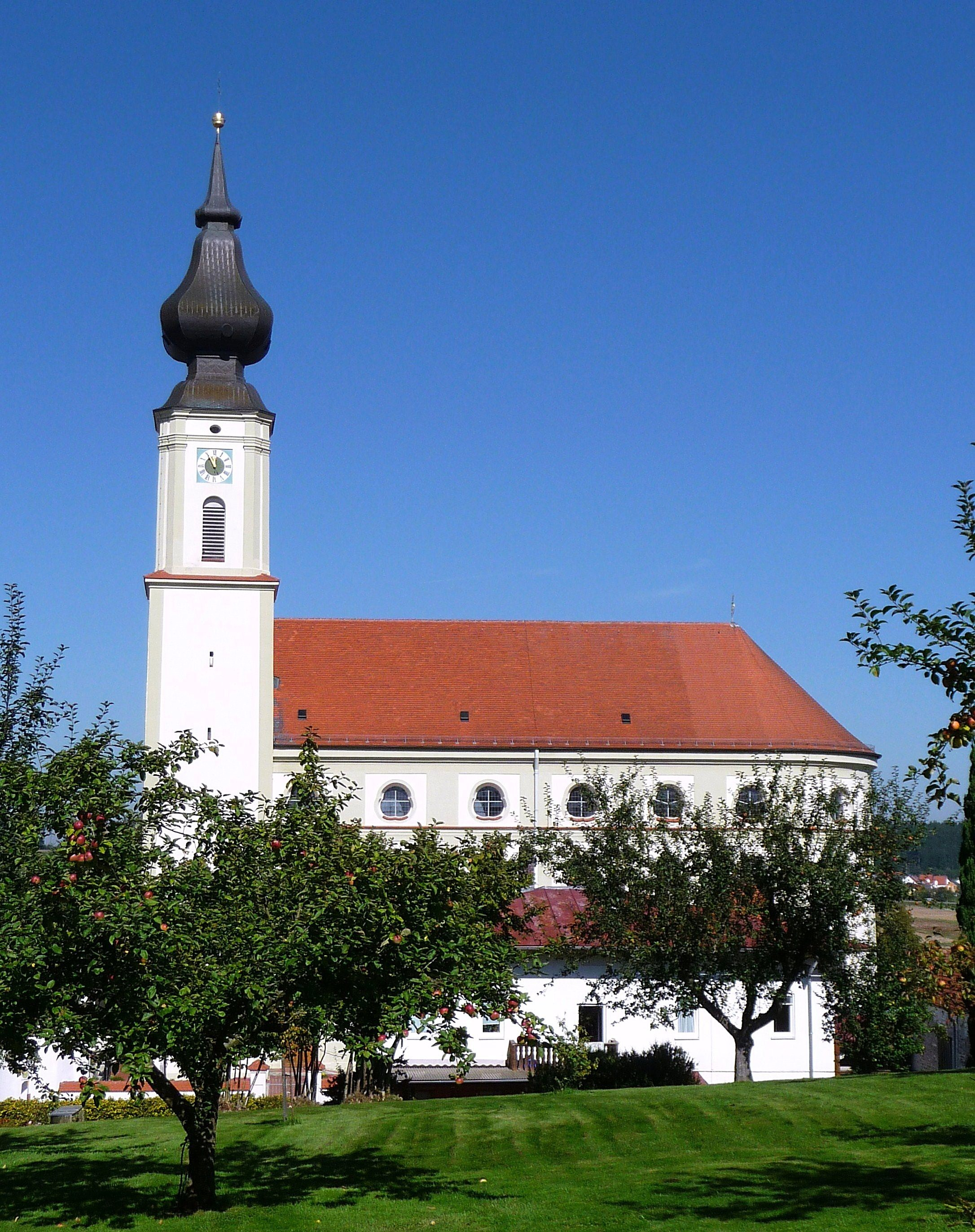 St Nicholas Parish Church, Altfraunhofen, Germany.